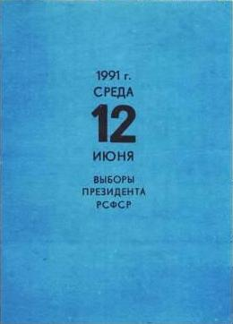 Russian voter invitation card, Russian presidential elections, June 12, 1991. Obverse.